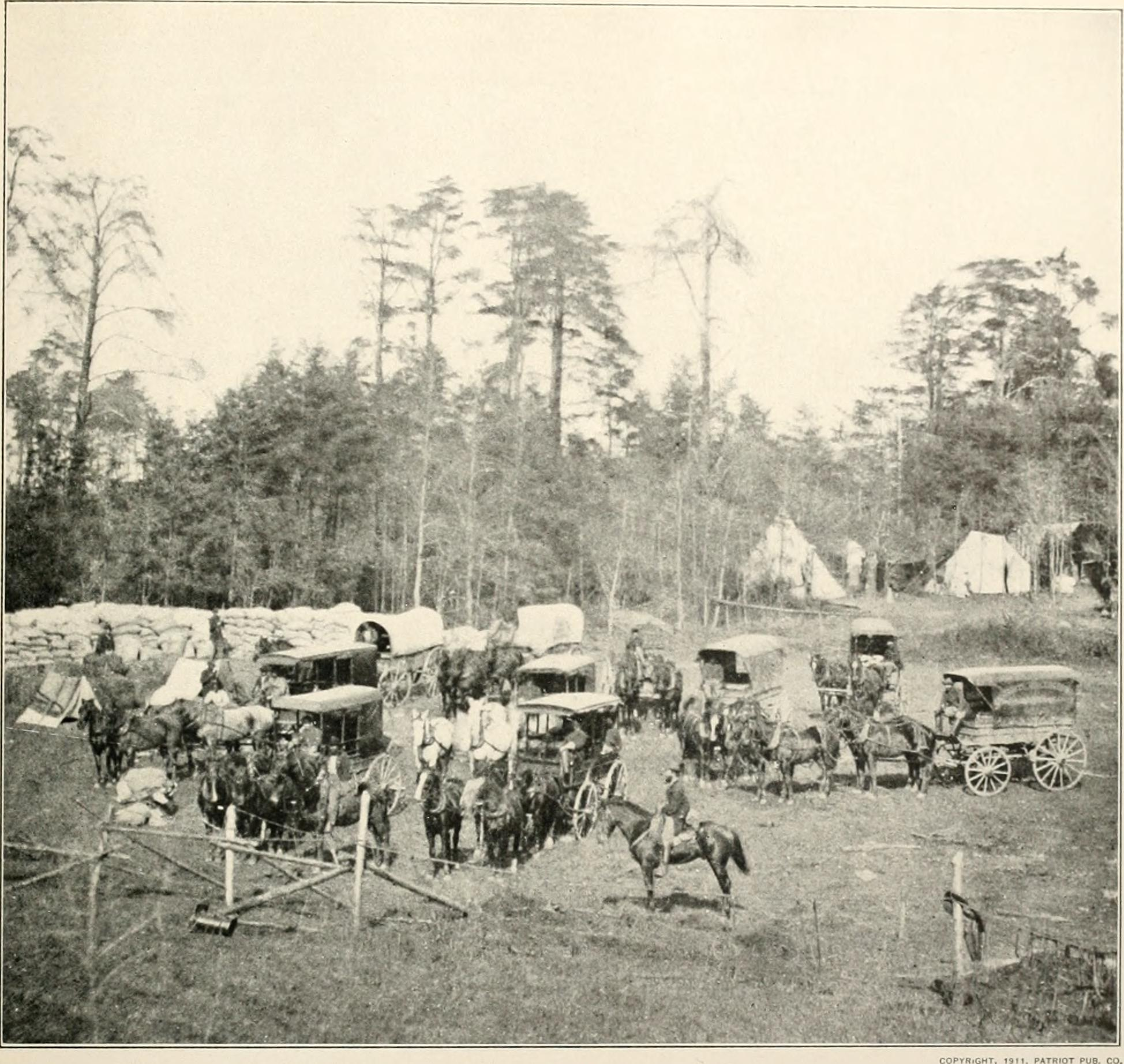 Title: The photographic history of the Civil War : thousands of scenes photographed 1861-65, with text by many special authorities Year: 1911 (1910s) Authors: Miller, Francis Trevelyan, 1877-1959 Lanier, Robert S. (Robert Sampson), 1880- Subjects: United States -- History Civil War, 1861-1865 Pictorial works United States -- History Civil War, 1861-1865 Publisher: New York : Review of Reviews Co. Text Appearing Before Image: ' Text Appearing After Image: , PATftrOT PUB. CO. AMBULANCES GOING TO THE FRONT—BEFORE THE WILDERNESS CAMPAIGN In the foreground of this photograph stand seven ambulances and two quartermasters wagons, Ijeing ))re-pared for active service in the field. Tiie scene is the headquarters of Cajjtain Bates, of the Third ArmyCorps, near Brandy Station. The following month (May, 1864) the Army of the Potomac moved to thefront under General Grant in his decisive campaign from the Wilderness onward. A large quantity ofstores lie upon the ground near the quarterma.sters wagons ready for transportation to the front. As itbecame evident that any idea of providing each regiment with its indi\idual hospital was impracticable in alarge command, efforts were made to afford hospital facilities for each division at the front. As aresult, the regimental medical supplies—the wagons containing which had usually been back with the fieldtrain when rcciuired during or after action—were largely called in and used to equip a single ce